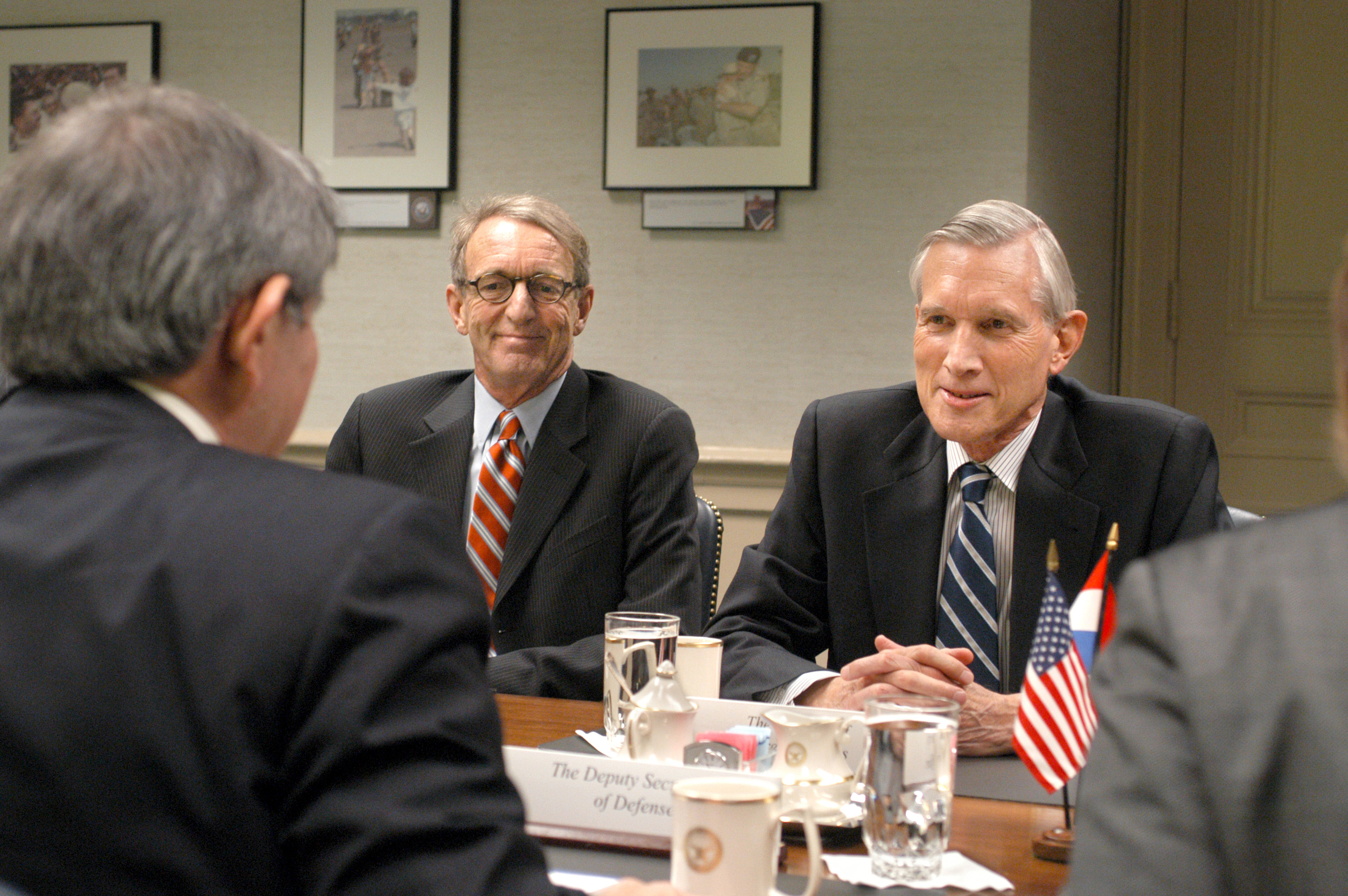 Minister of Foreign Affairs Bernard Bot (right), of the Netherlands, meets with Deputy Secretary of Defense Paul Wolfowitz (foreground) in the Pentagon on Feb. 17, 2005. Netherlands' Ambassador to the United States Boudewijn van Eenennaam (center) joined Bot and Wolfowitz to discuss a range of bilateral security issues.